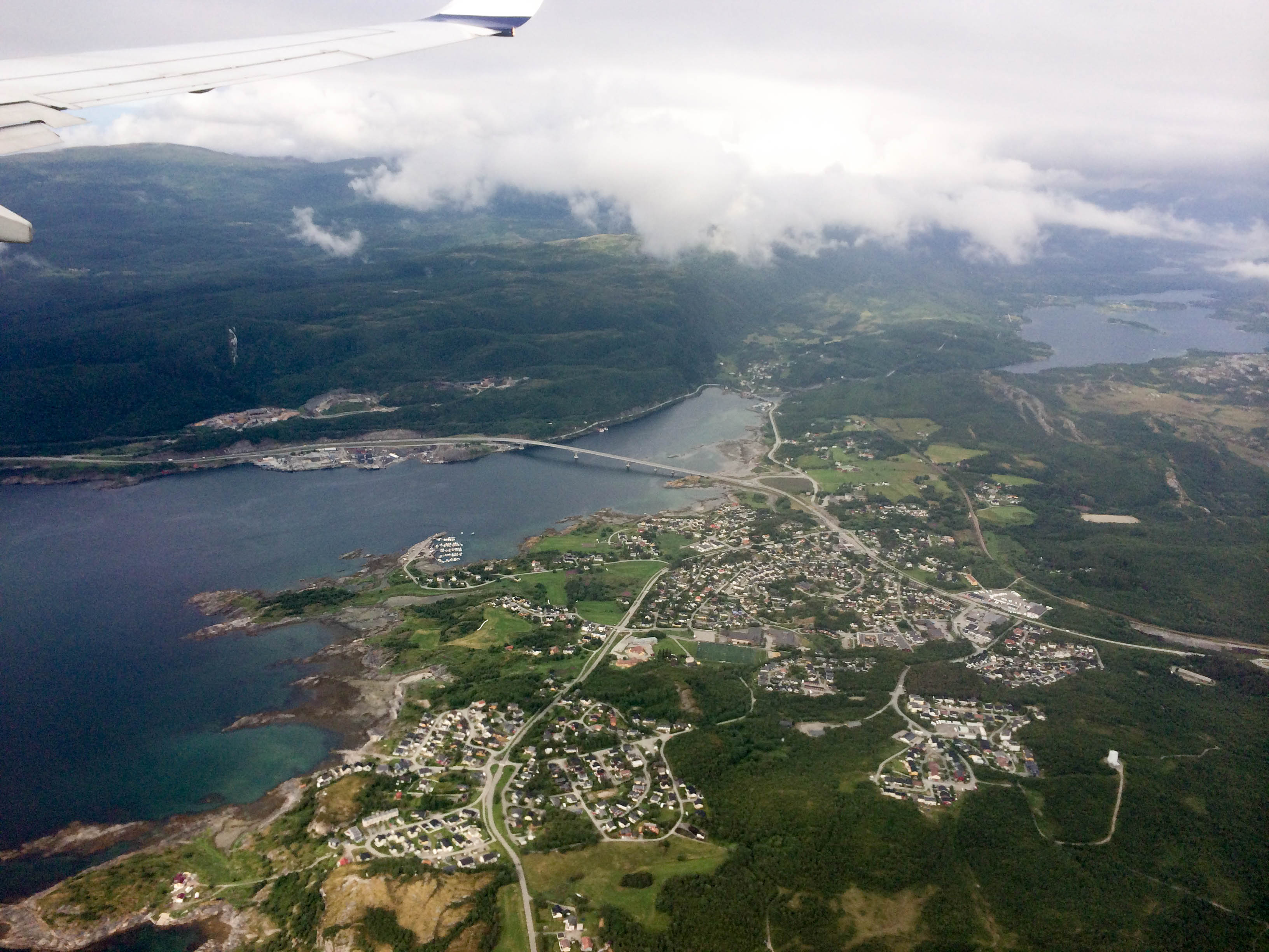 Bodø from the air. Hopen with Tverlandsbrua road bridge, opened in 2013.